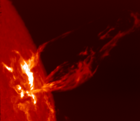 Coronal Mass Ejection (CME)